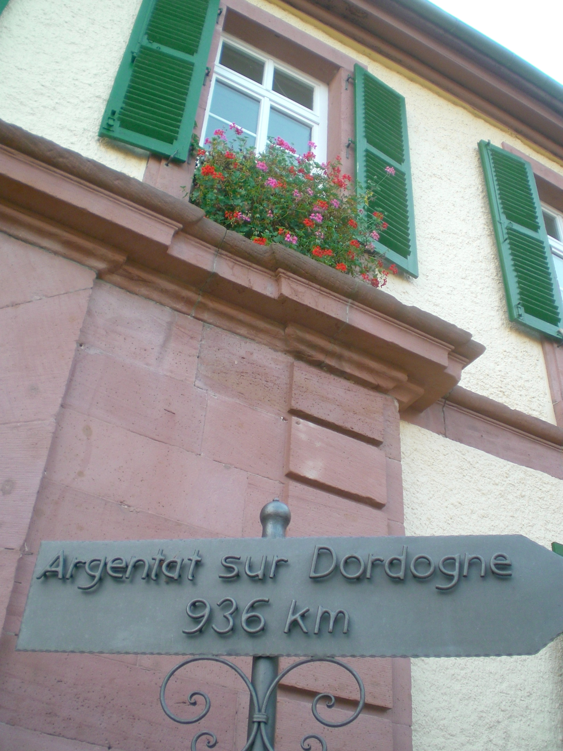 sign to Argentat sur Dordogne, France, in the twin town Bad König, Germany